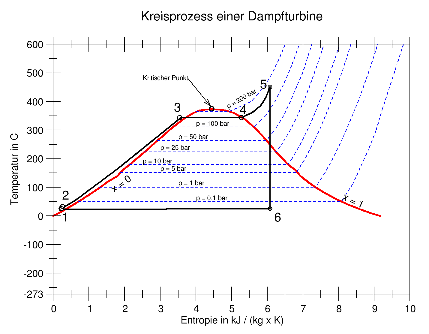 Circle prozess of a overheated steam turbine